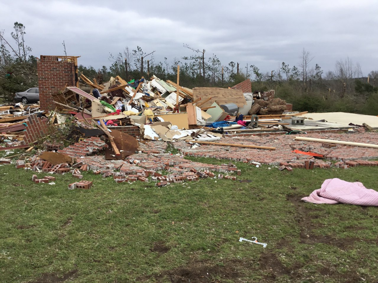 Example of EF4 damage taken from Lee County AL, on March 3rd, 2019.